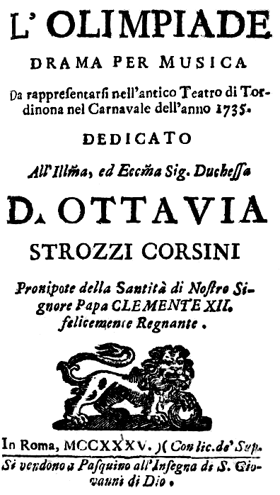 Giovanni Battista Pergolesi - Olimpiade - titlepage of the libretto - Rom 1735